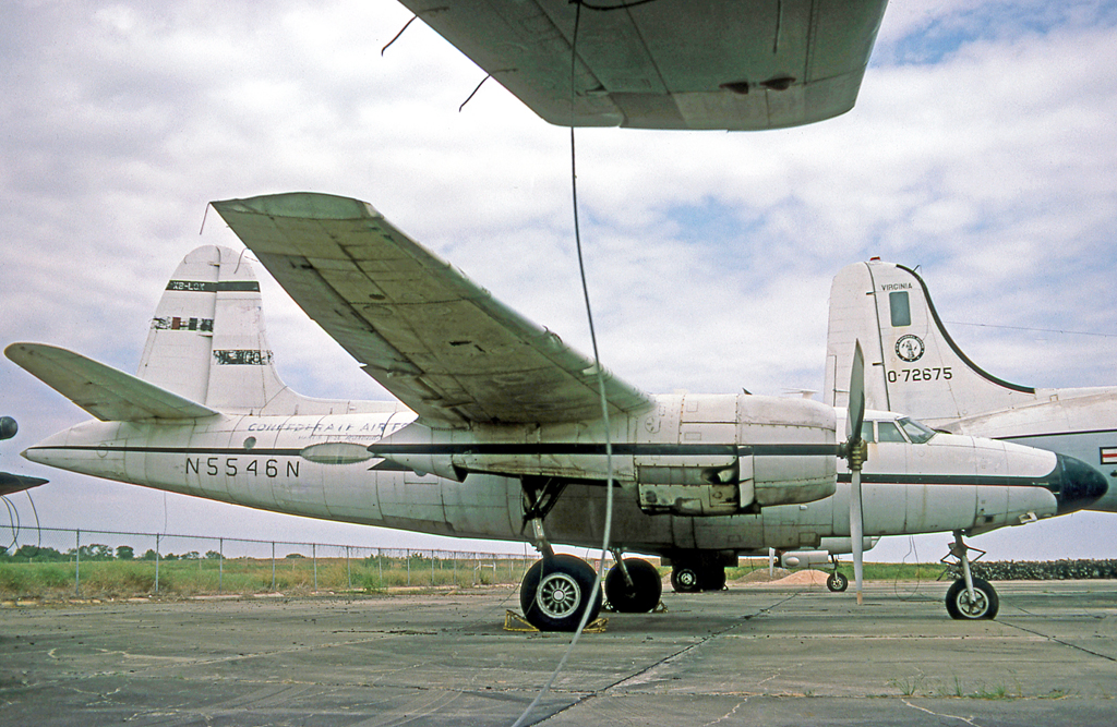 Martin B-26C Marauder N5546N of the Confederate Air Force at Harlingen Texas in 1975. This had been modified circa 1948 for corporate transport. Ex USAAF 41-35071. Destroyed in a crash 28.09.95 Odessa TX.